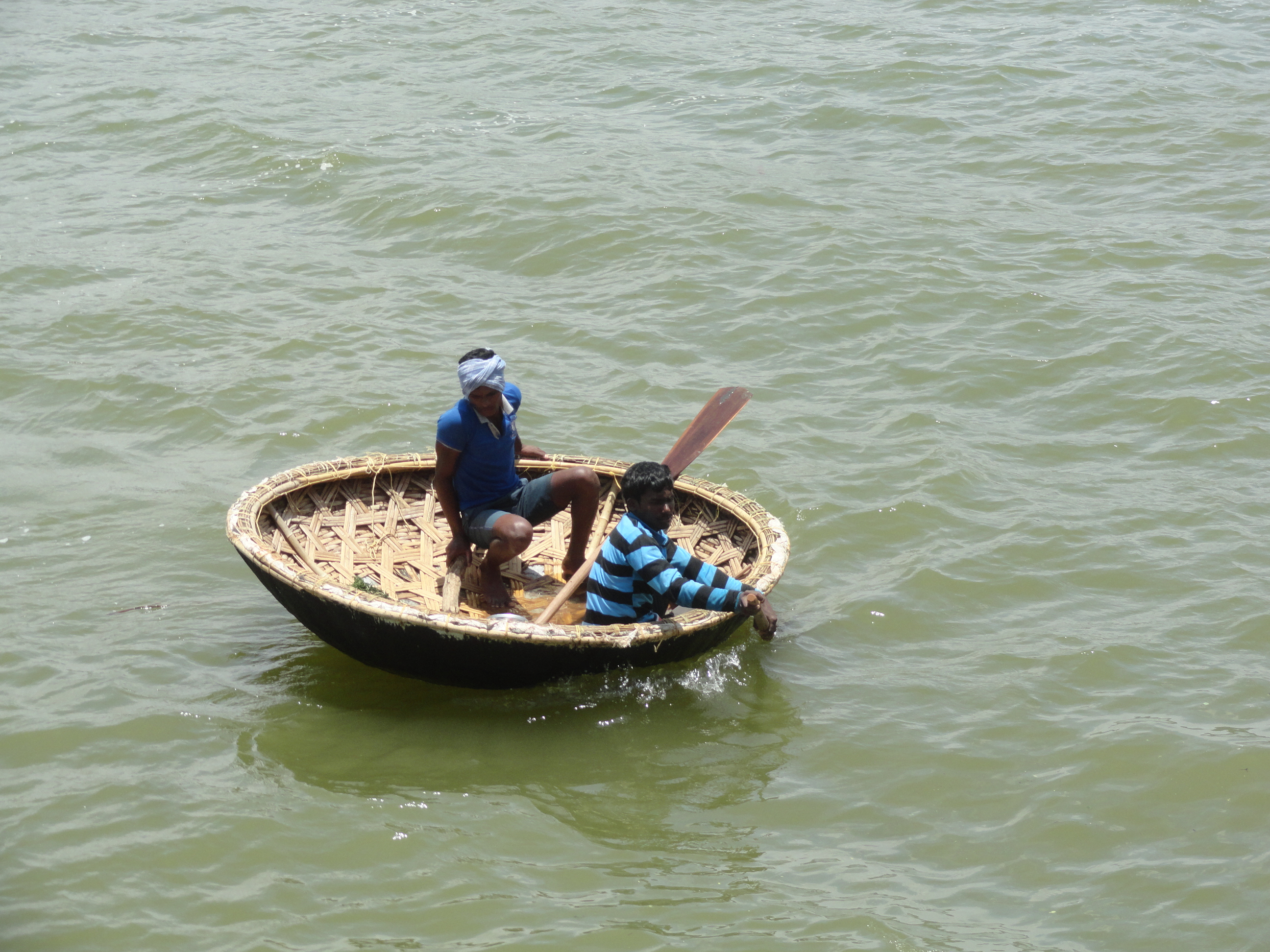 పుట్టి........